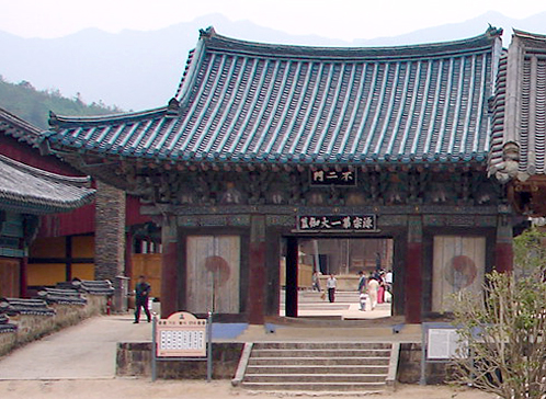 Tongdosa Burimun, known as the Gate of Non-Duality. The world across this gate is one of non-duality, where there is no distinction between the Buddha and human beings, being and non-being, good and evil, and fullness and emptiness.